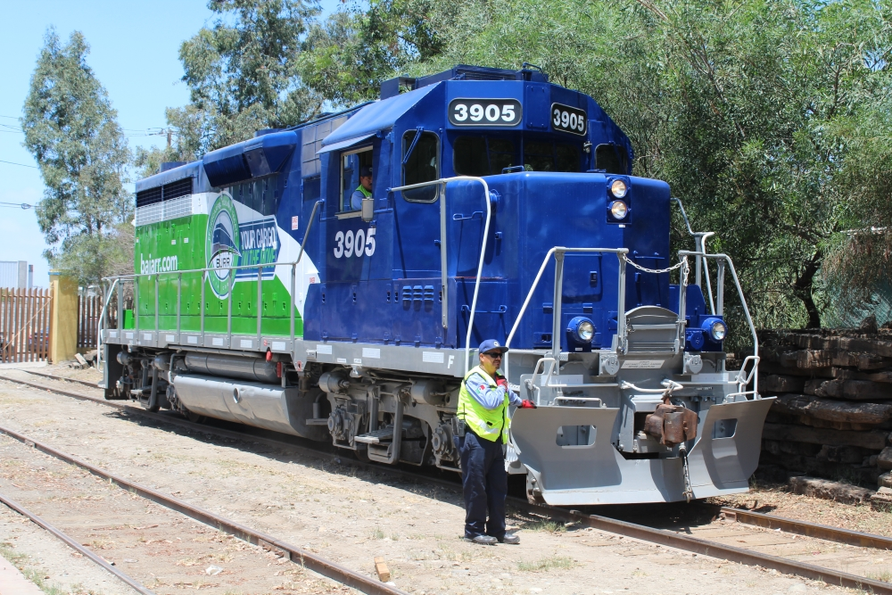 On a public excursion operated by Baja Railroad, an employee uses the radio while switching is conducted.